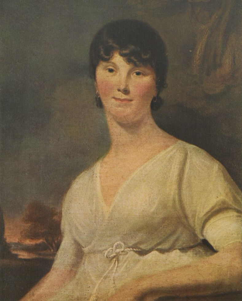 Portrait of Sarah Phillips Gowland (1773-1837), wife of Thomas Gowland Chamberlayne.